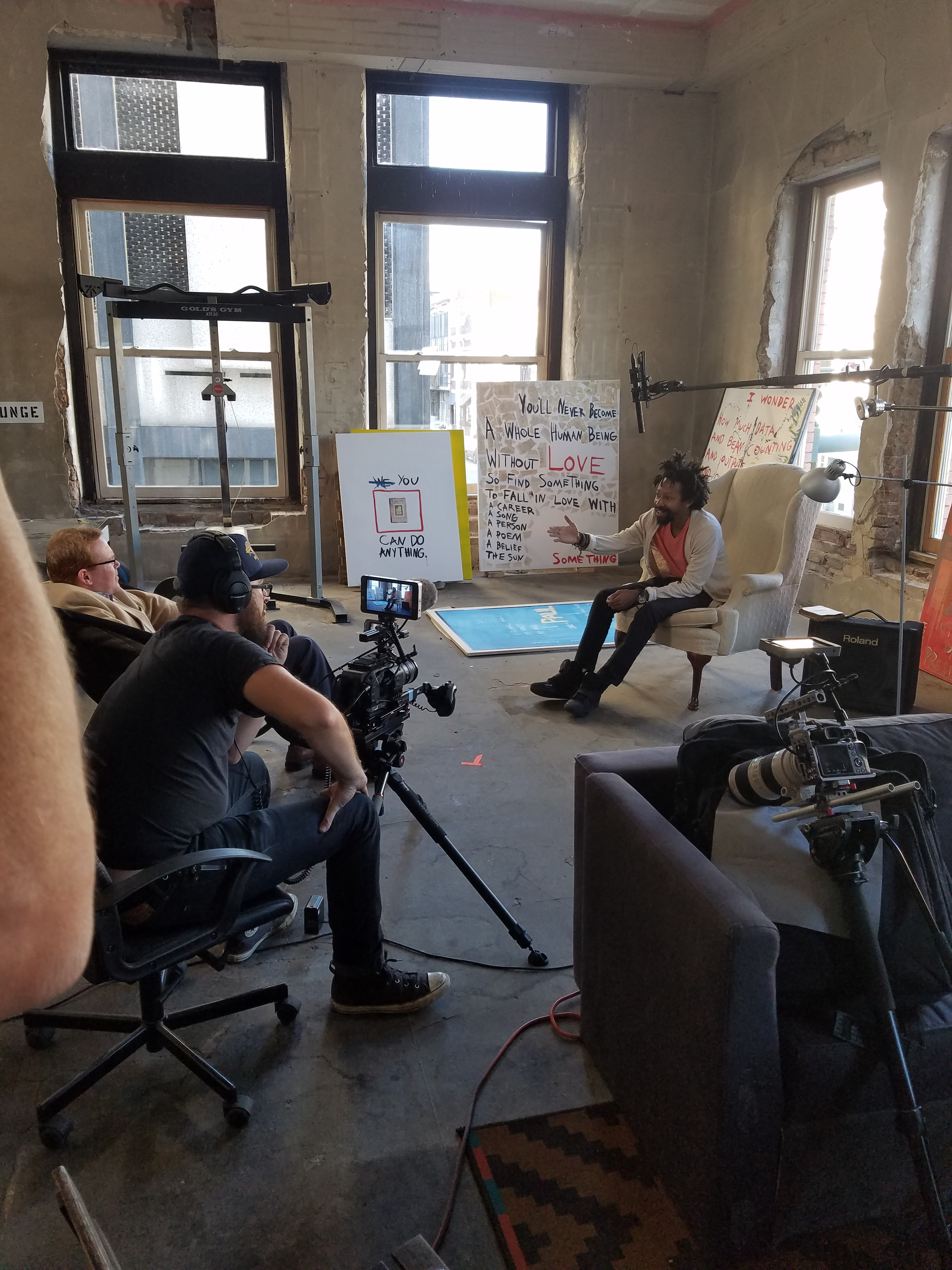 Genesis being interview before his Fine Art Poetry exhibition "Through the Grey"